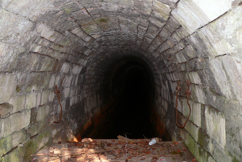 The Ernst August tunnel, part of the Upper Harz Water Regale network in Germany's Harz mountains